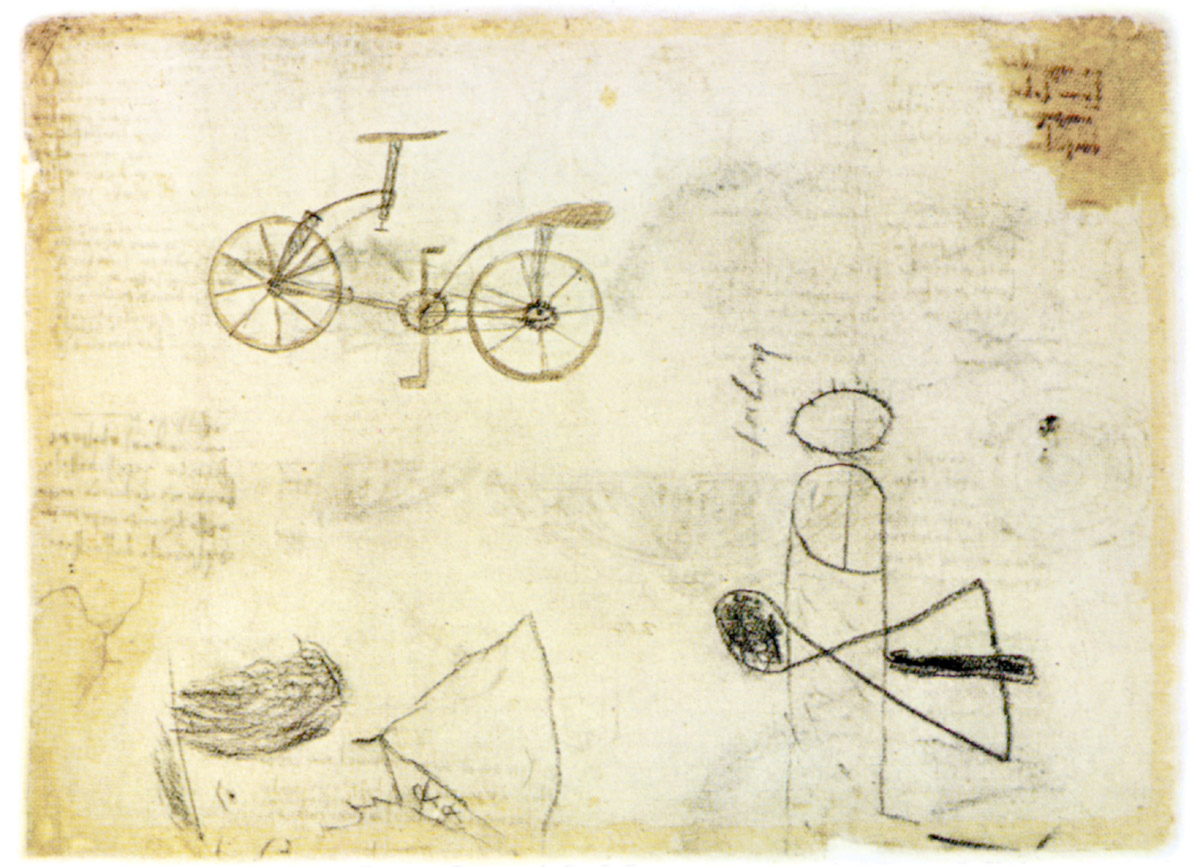 A color photo of folio 133v shows the bike be fainter than the graffiti.